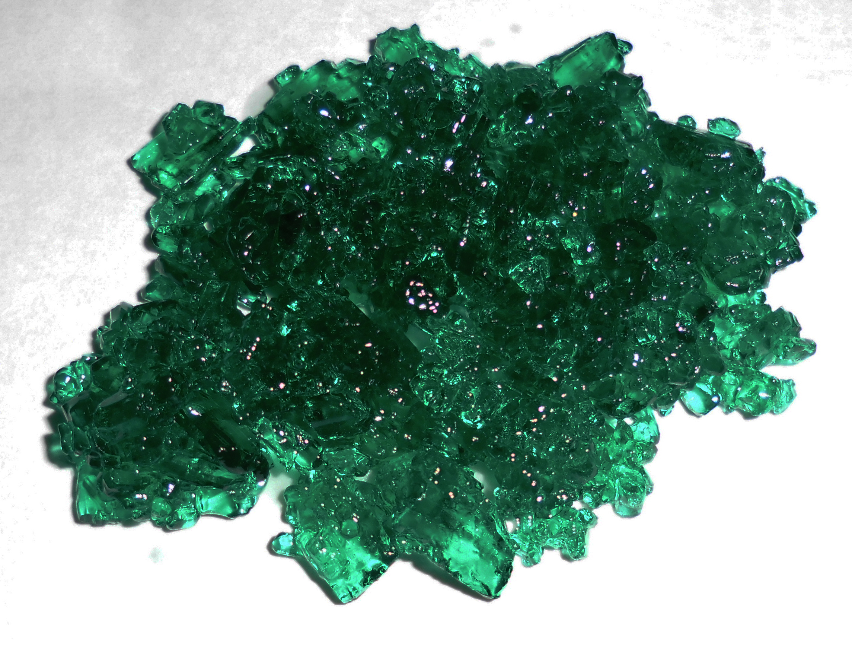 Nickel(II) nitrate hexahydrate, purity 98%.